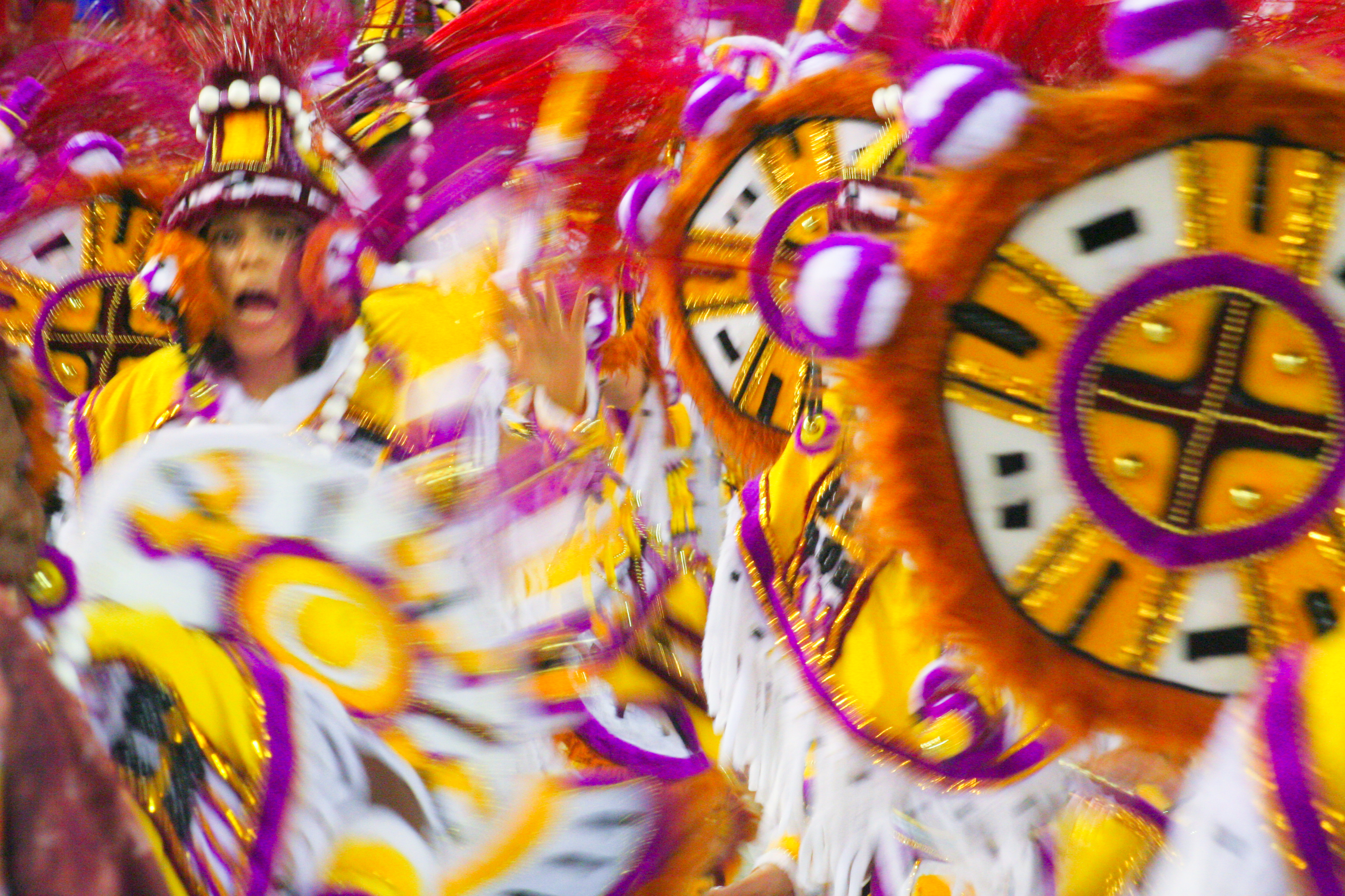 Carnival, in Rio de Janeiro, Brazil, Marquês de Sapucaí